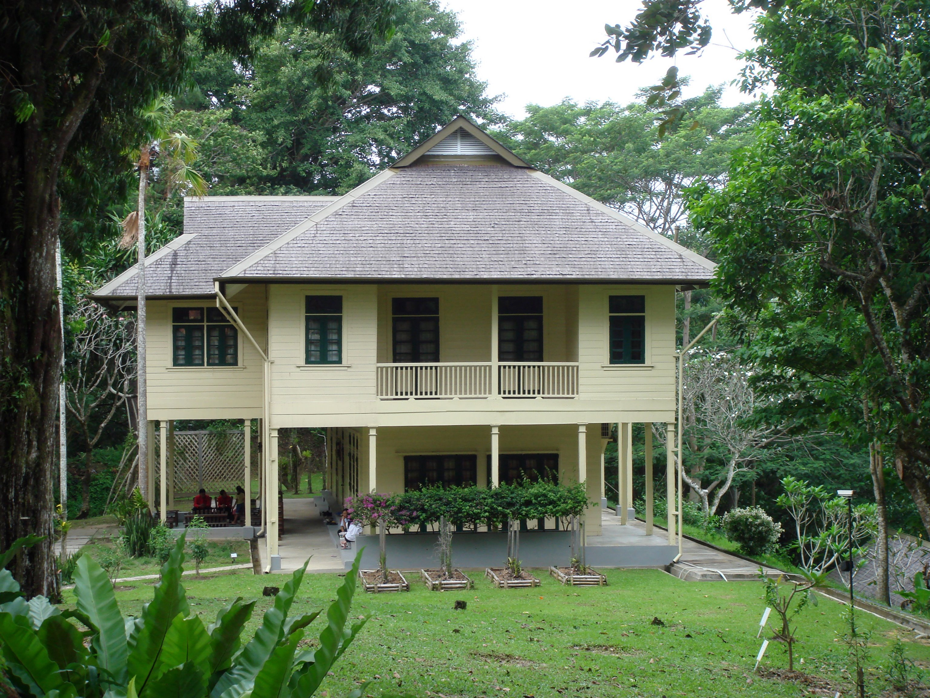 Newlands, the home of Agnes Newton Keith in Sandakan, Borneo